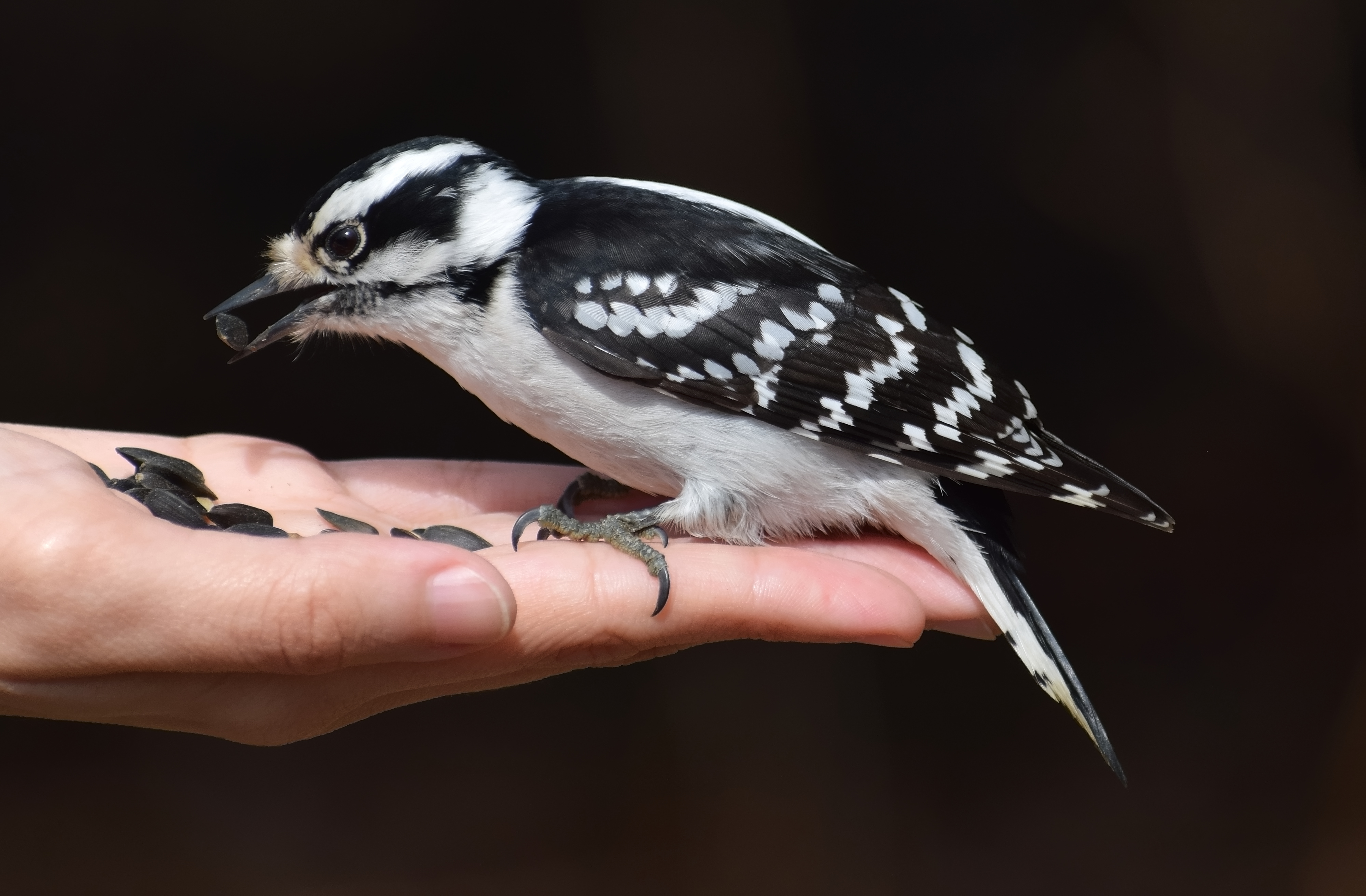 Female downy woodpecker (Dryobates pubescens) feeding on sunflower seeds.